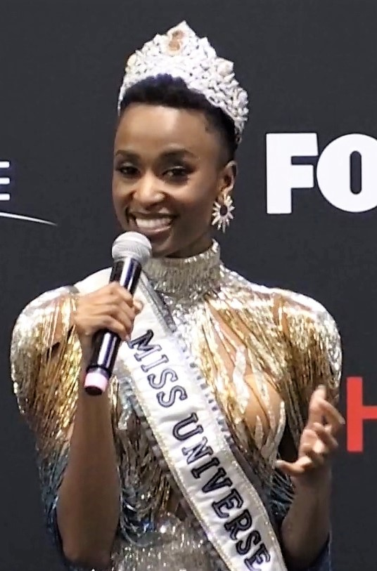 Zozibini Tunzi, Miss Universe 2019